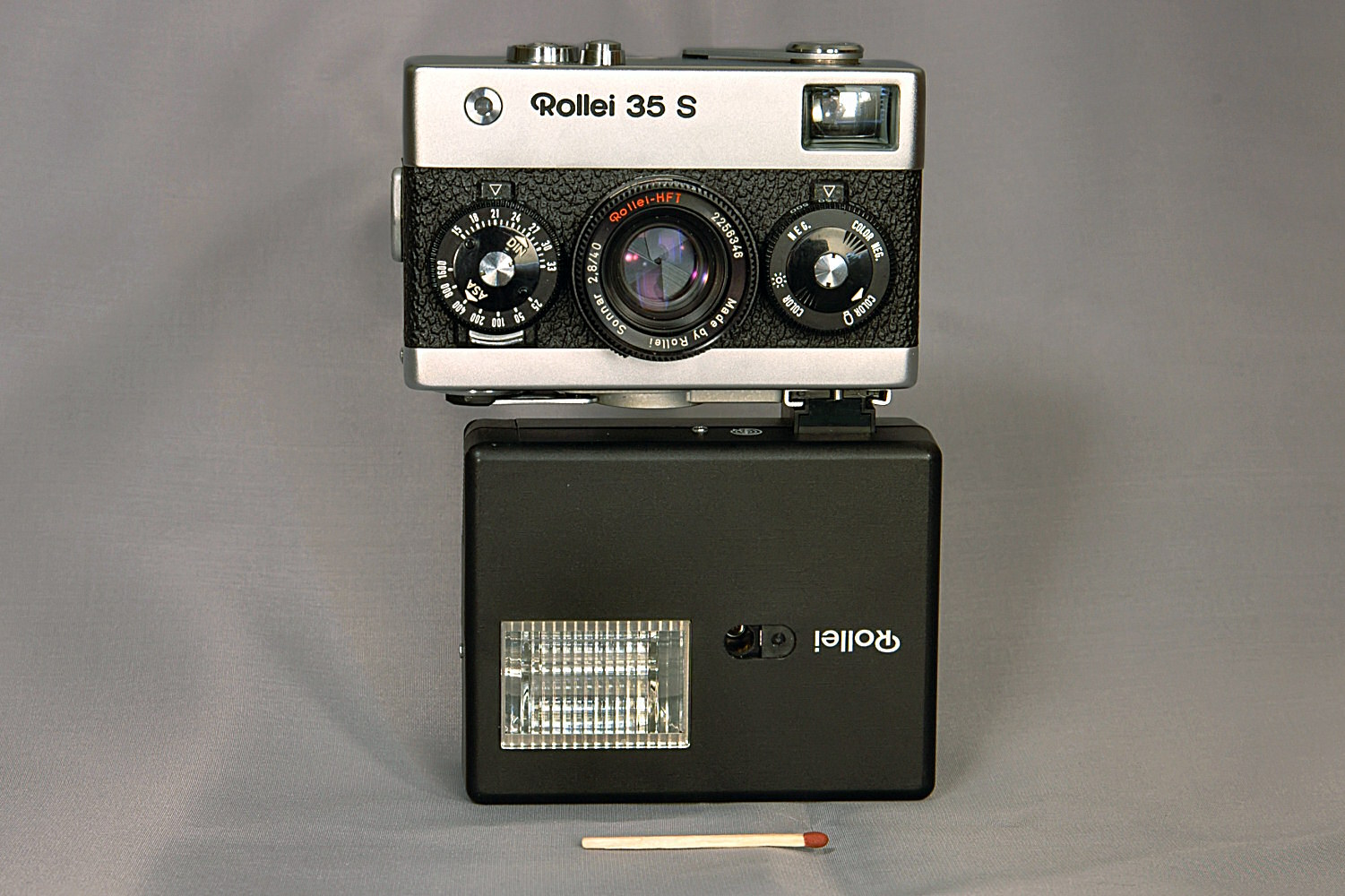 Camera Rollei 35S, with flash 128BC